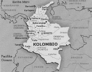 Mapa de Colombia